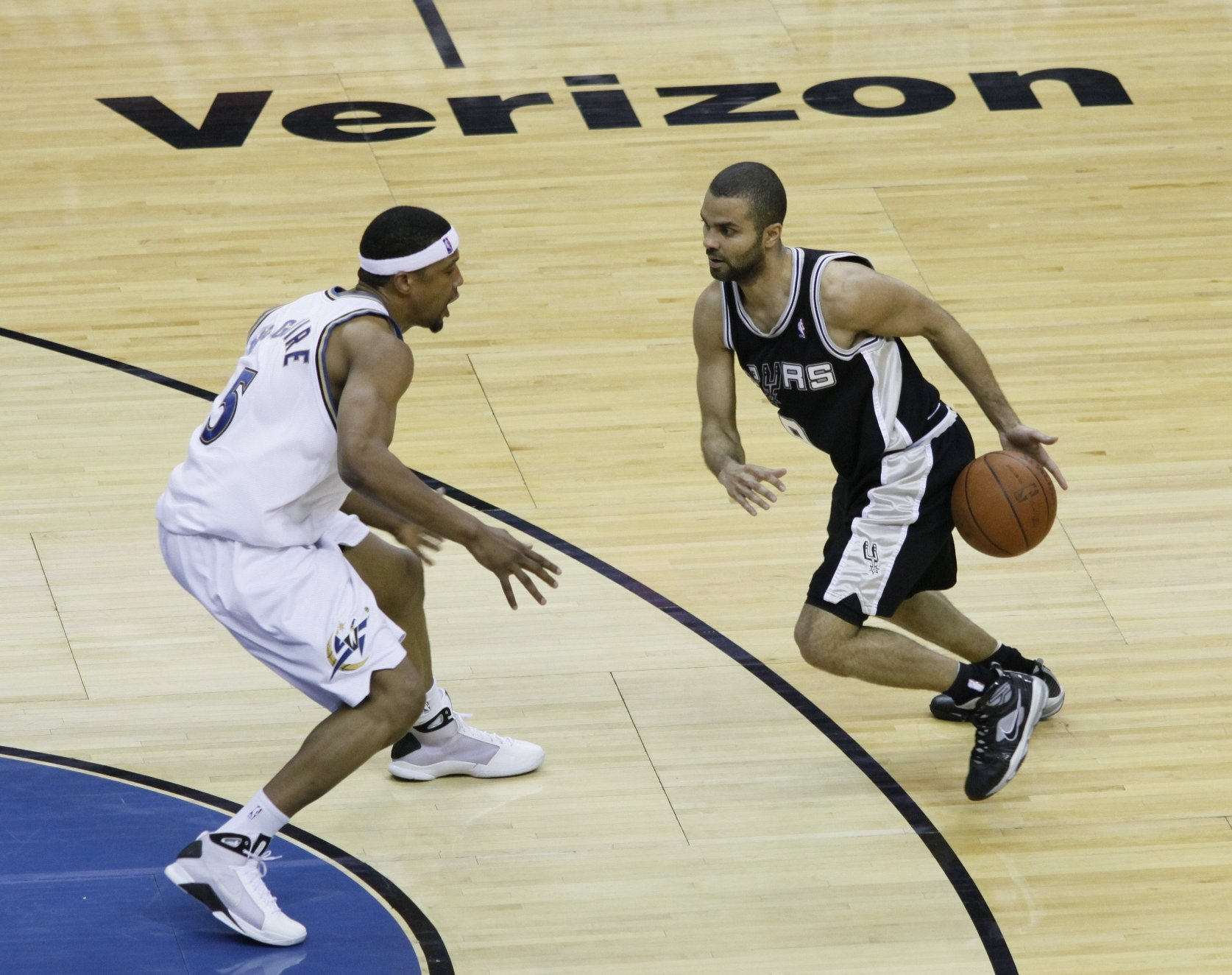 Tony Parker, San Antonio Spurs, 2008–09